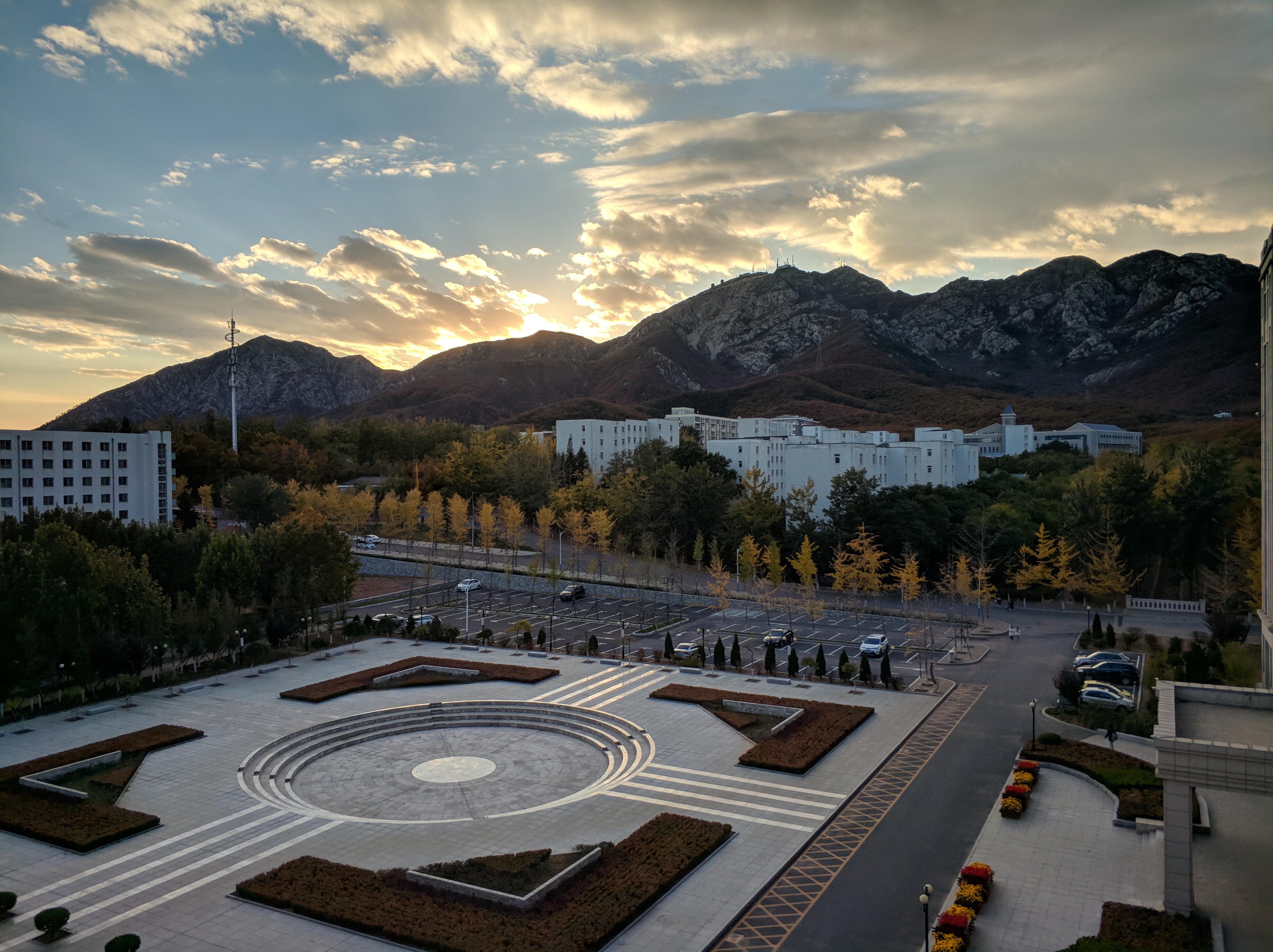 some photos of this university